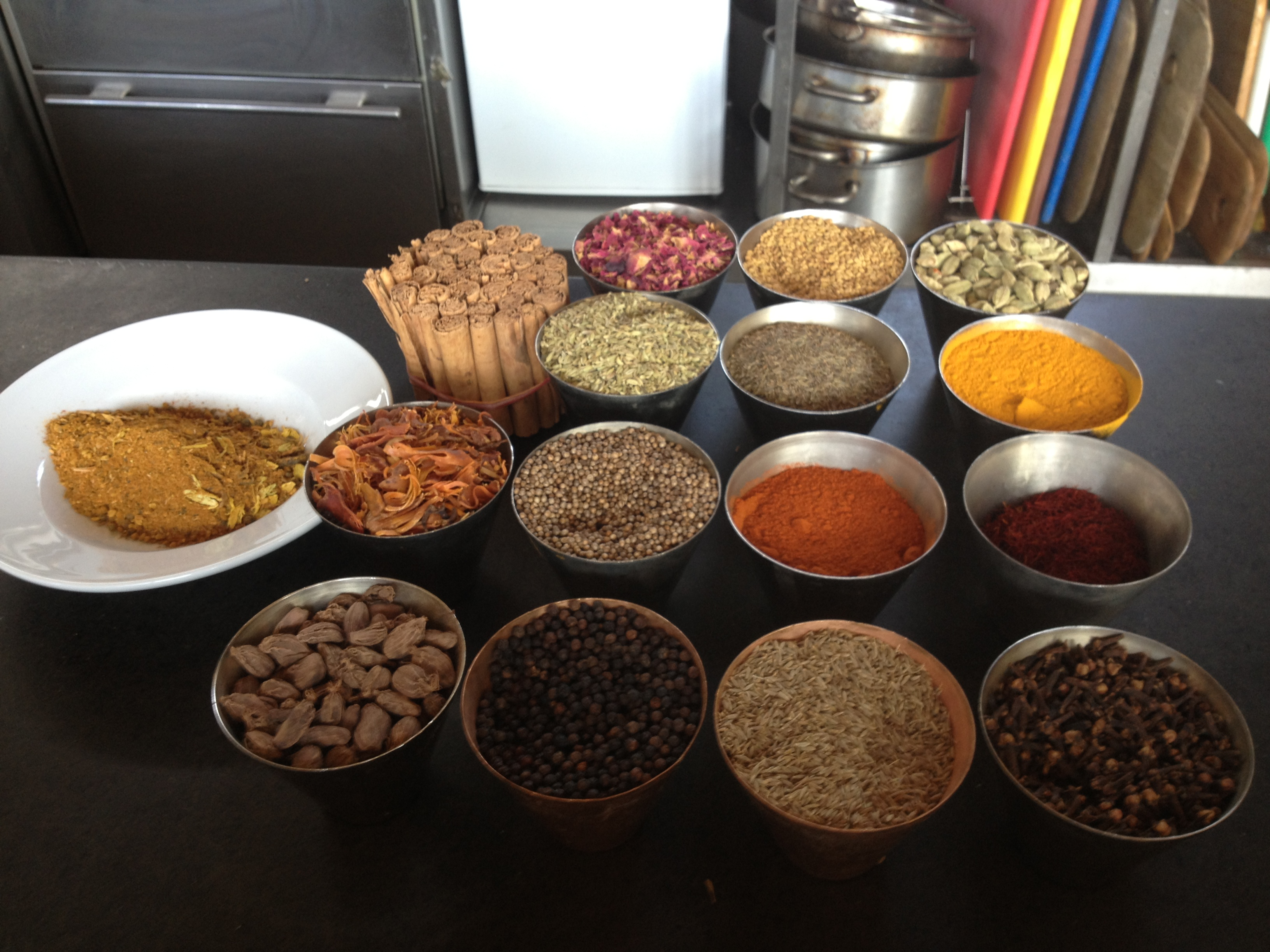 Spices (garam masala) used in preparing Biryani and Hyderabadi haleem